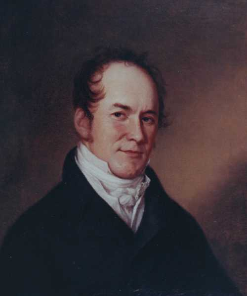 Portrait of Senator John Holmes of Maine